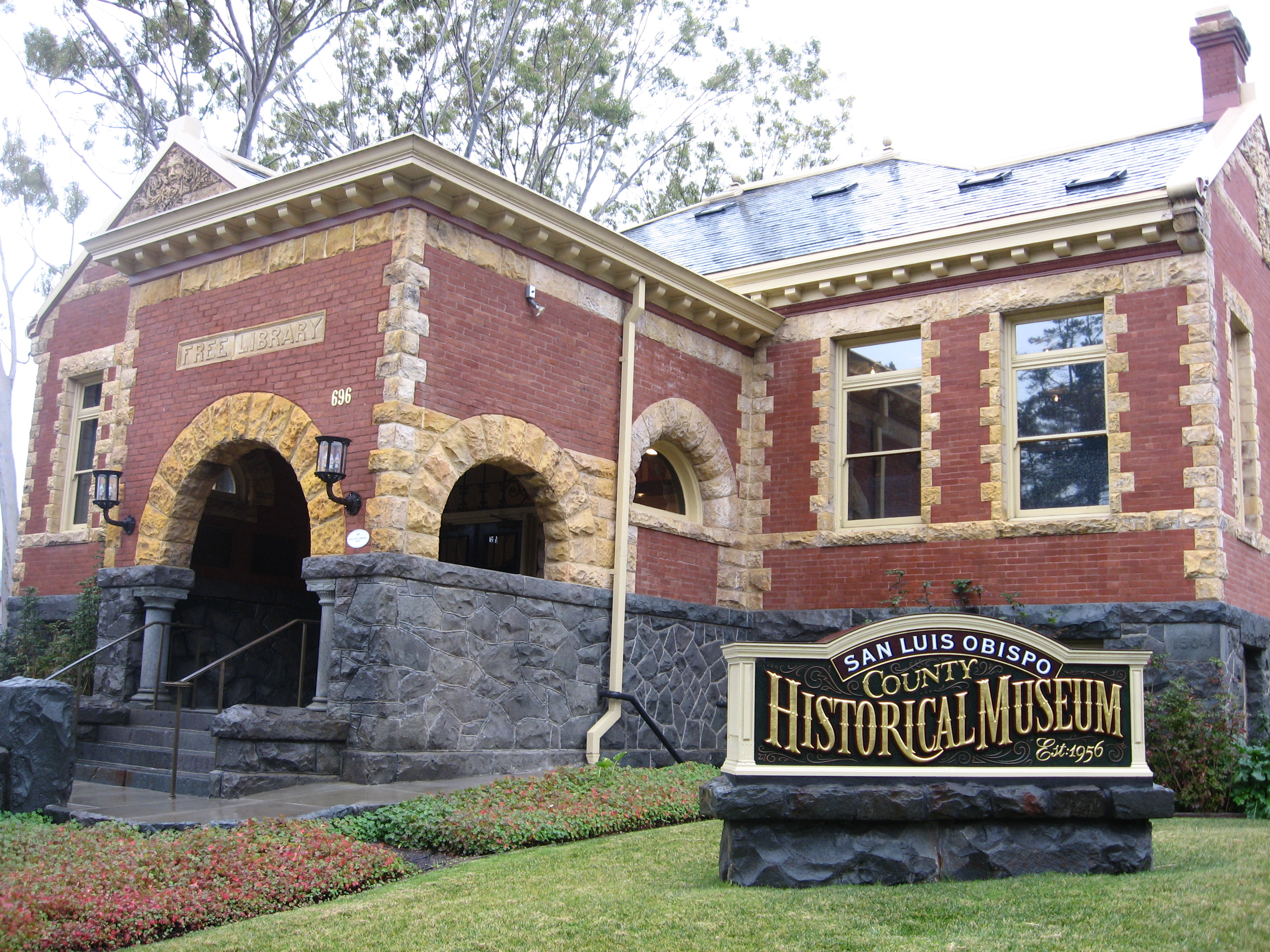 The San Luis Obispo County Historical Museum — on Mission Plaza in downtown San Luis Obispo, Central California. The former local Carnegie library was built in 1903, in the Richardsonian Romanesque style.